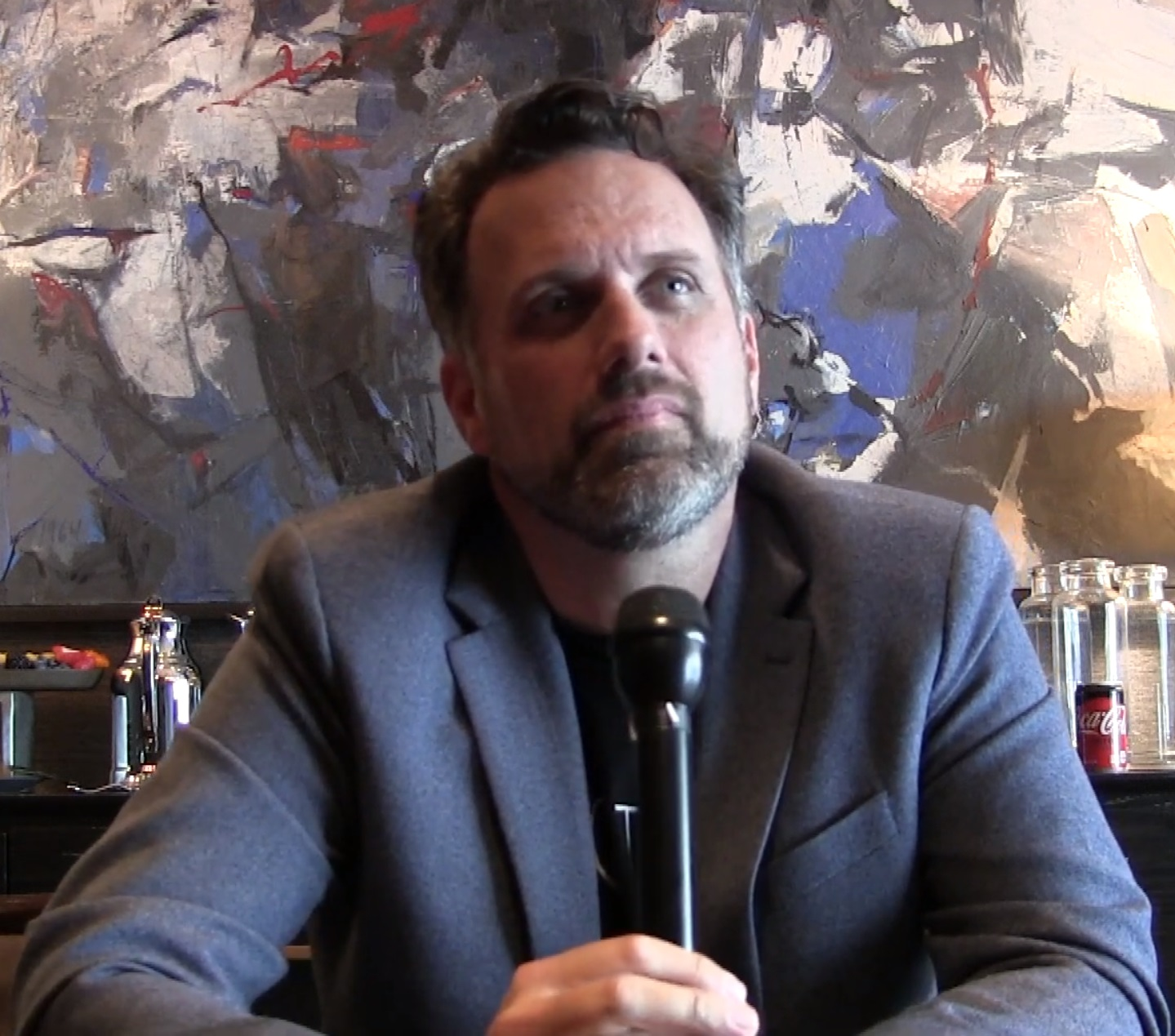 Spencer Fornaciari of The MacGuffin interviews writer/director Sean Anders from the dramedy Instant Family.